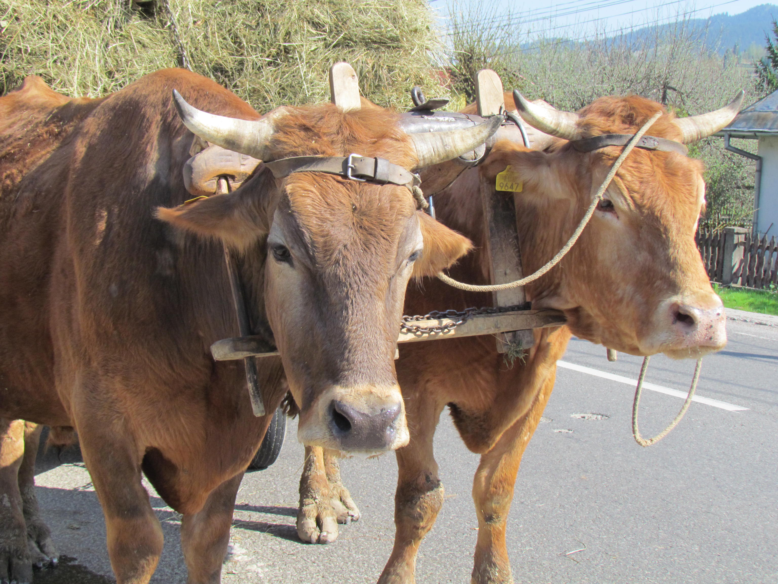 Harnessed team of oxen in Romania(Bruna de Maramureş breed), Romania.